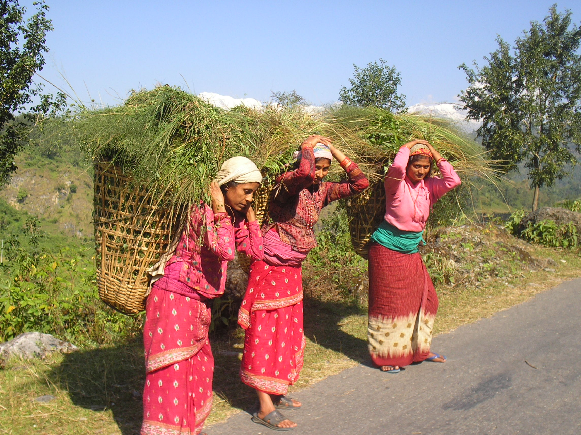 Nepali women carrying doko which reveals the clear picturescue of nepali women who really have to face harships and more about the domestic works who are confined with in the four walls.